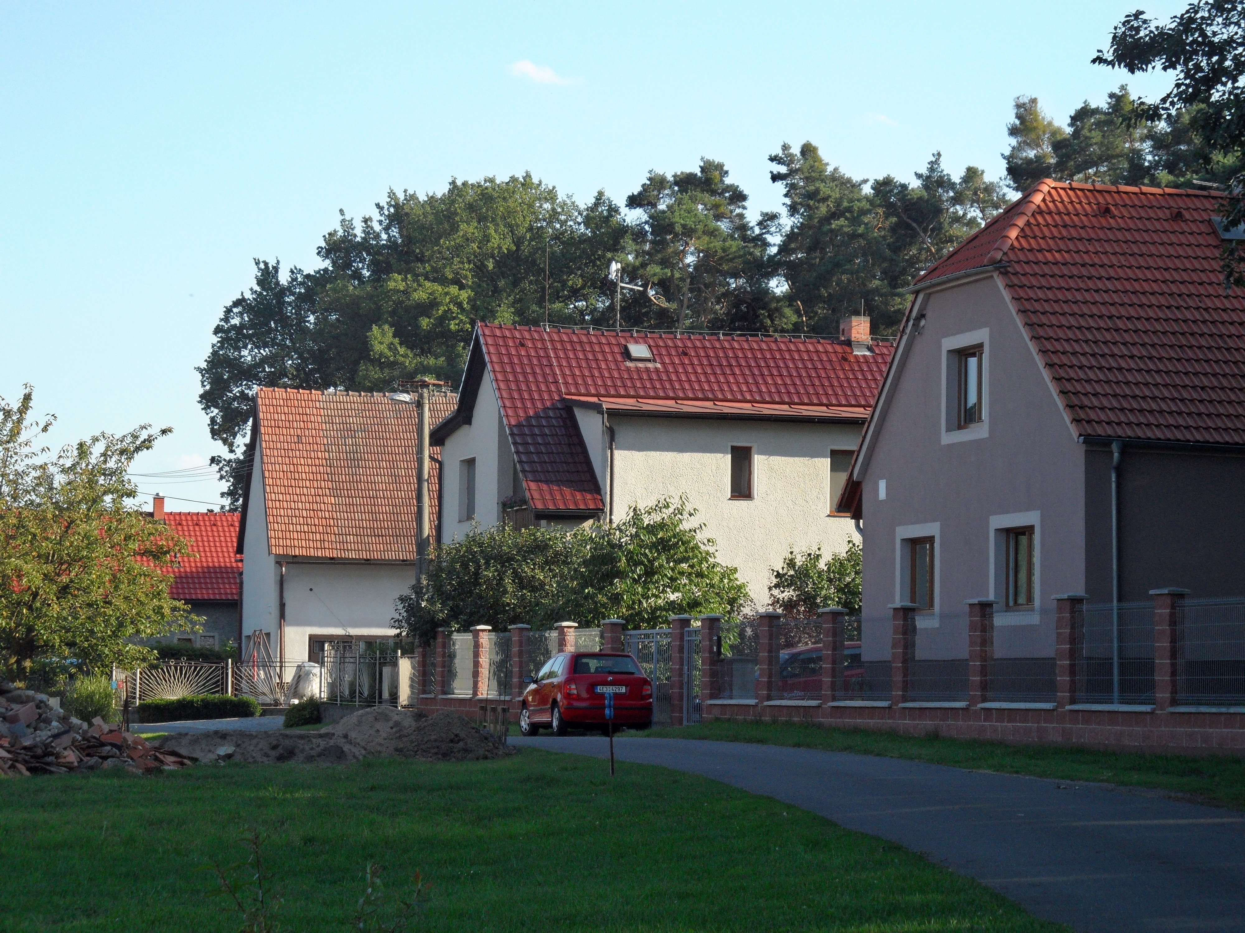 Malolánské: Street with Houses. Pardubice District, the Czech Republic.